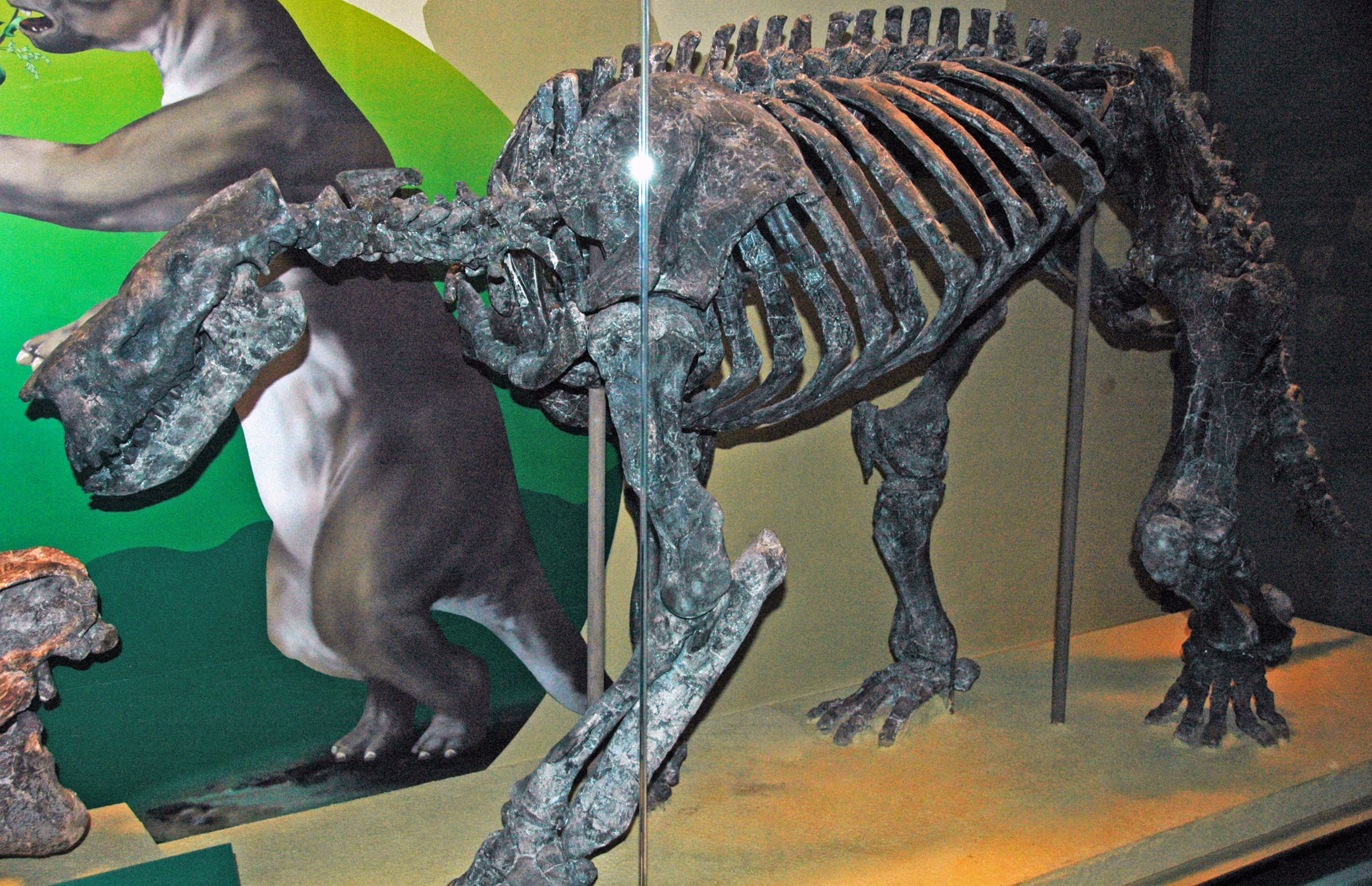 Barylambda faberi (Patterson, 1933) - fossil pantodont mammal skeleton from the Tertiary of Colorado, USA. (FMNH P14945, Field Museum of Natural History, Chicago, Illinois, USA) From museum signage: "Pantodonts were large, lumbering plant eaters. Barylambda may have rested on its massive hind limbs and heavy tail to reach high branches." Classification: Animalia, Chordata, Vertebrata, Mammalia, Cimolesta, Pantodonta, Pantolambdidae / Barylambdidae Stratigraphy: undisclosed/unrecorded, but apparently from the Wasatch Formation, Clarkforkian Stage, uppermost Paleocene to lowermost Eocene Locality: Hell's Half Acre, Plateau Creek Valley, Mesa County, western Colorado, USA See info. at